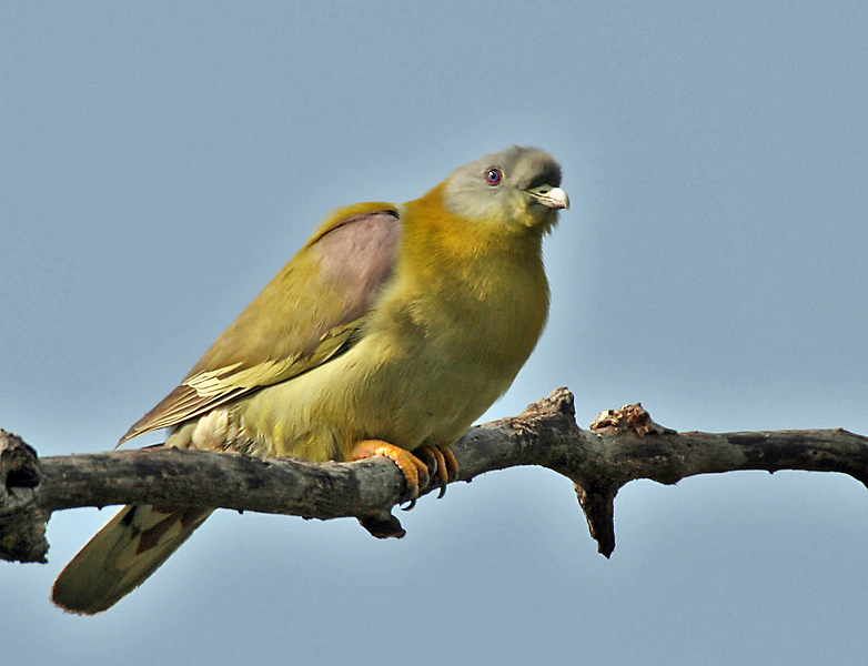 Yellow-footed Green Pigeons Treron phoenicoptera - chlorigaster race at Sultanpur National Park in Gurgaon District of Haryana, India.